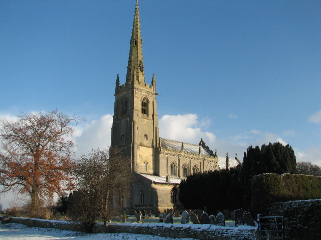 St Peter's parish church, Claypole, Lincolnshire, seen from the southwest in snow